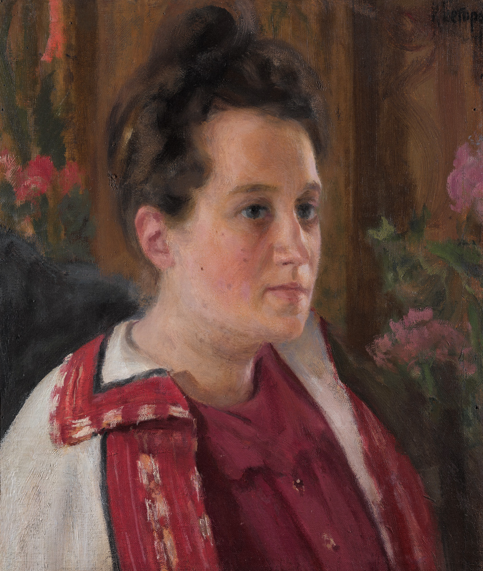 Yulia Ivanovna Kazarina oil on canvas 47.5 x 40.5 cm signed t.r.: K Petro... 1900